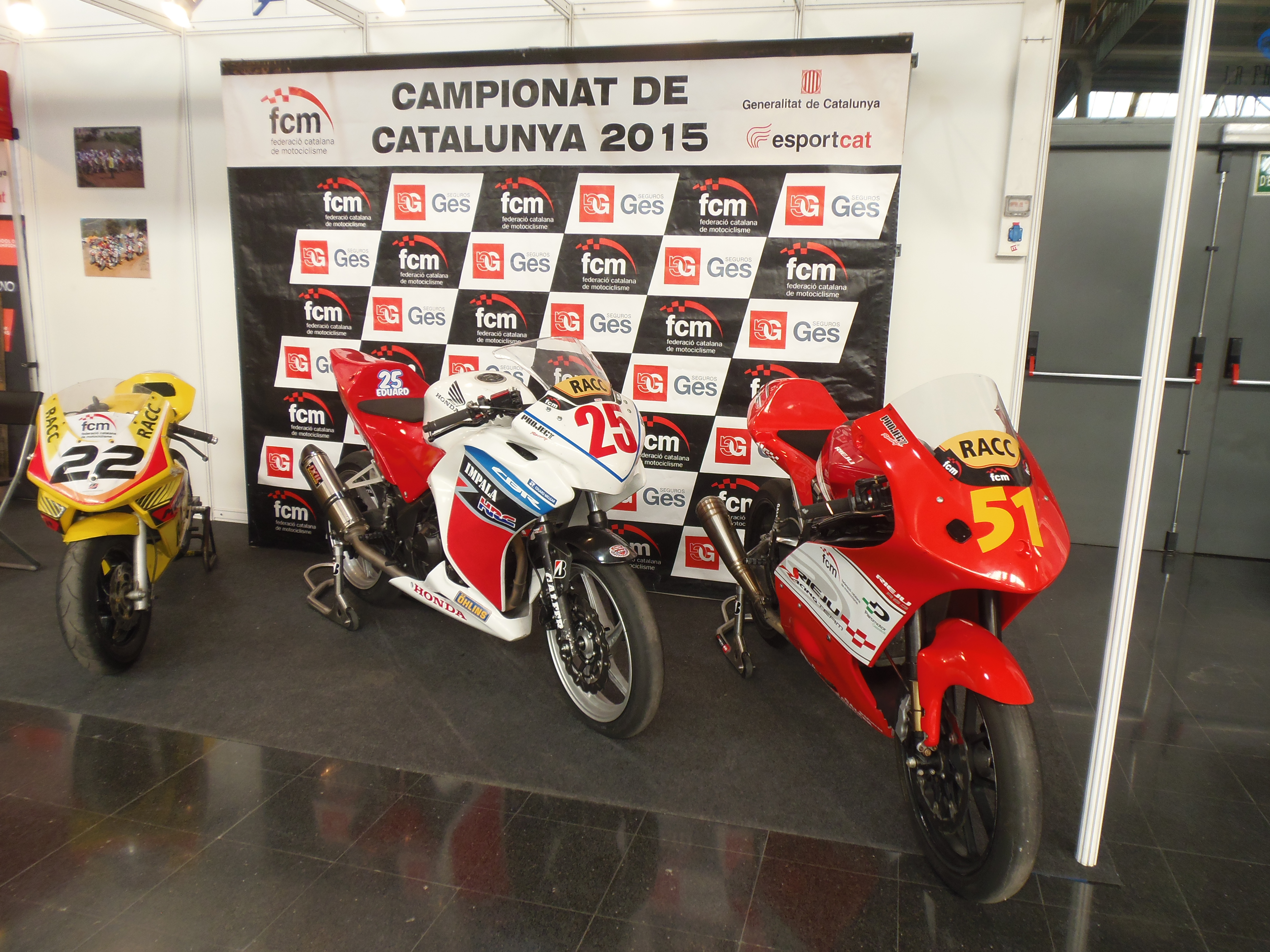 FCM Stand at 2015 BCN Moto